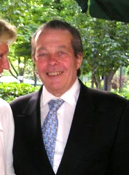 Prince Michel of Orléans, Count of Évreux (b.1941)